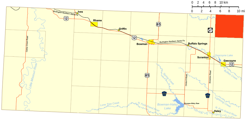 Map of Bowman County, ND, with Buena Vista Township highlighted